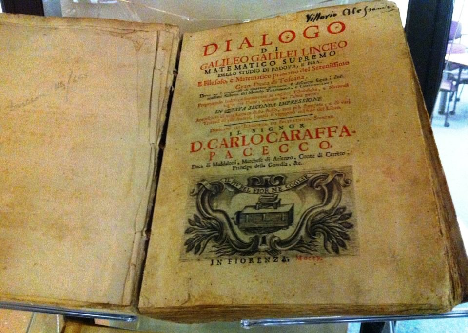 Galileo Galilei's "Dialogo", Florence edition, printed in 1710. Copy is located at Tom Slick's rare book collection at the Southwest Research Institute library in San Antonio, Texas.